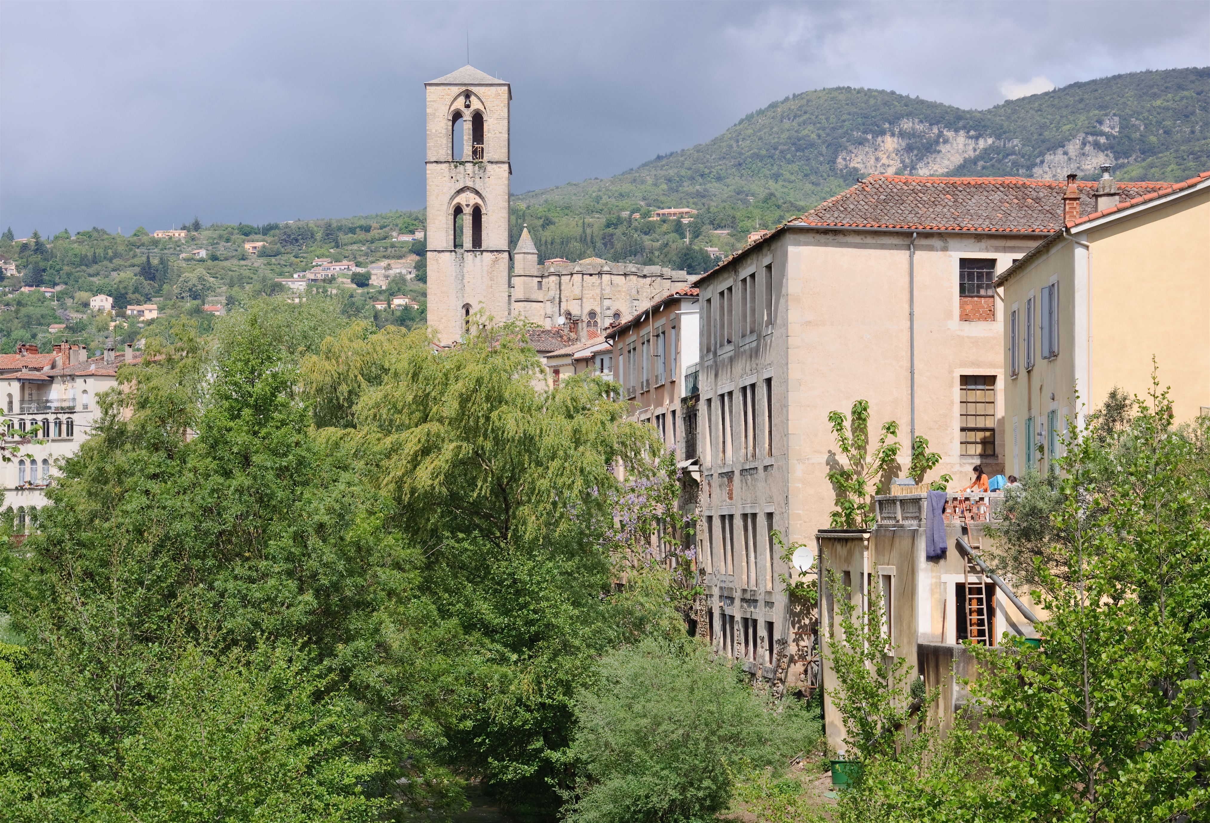 Lodève, Hérault, France: houses along the Soulondre river, overlooked by Saint-Fulcran cathedral.